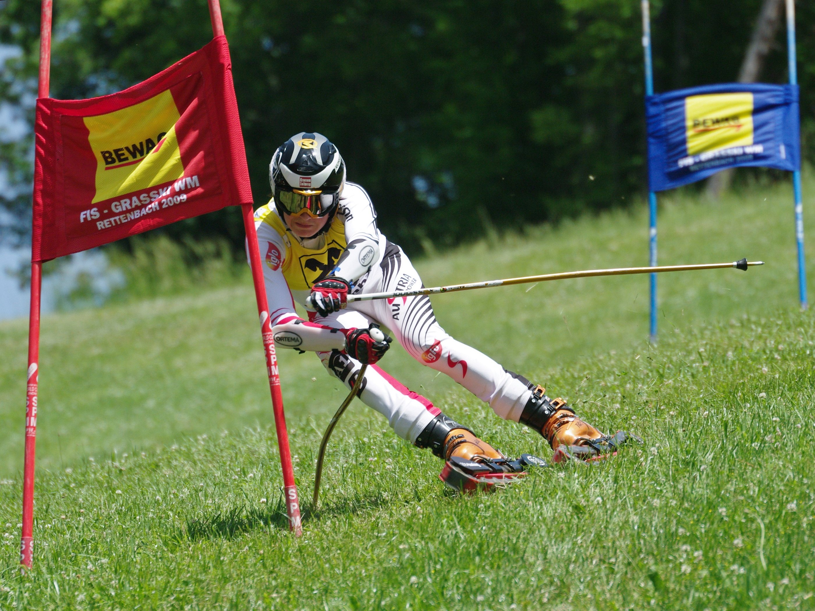 Austrian Grass skier Hannes Angerer in the second Giant slalom run at the Austrian Grasski Championships 2010 in Rettenbach.